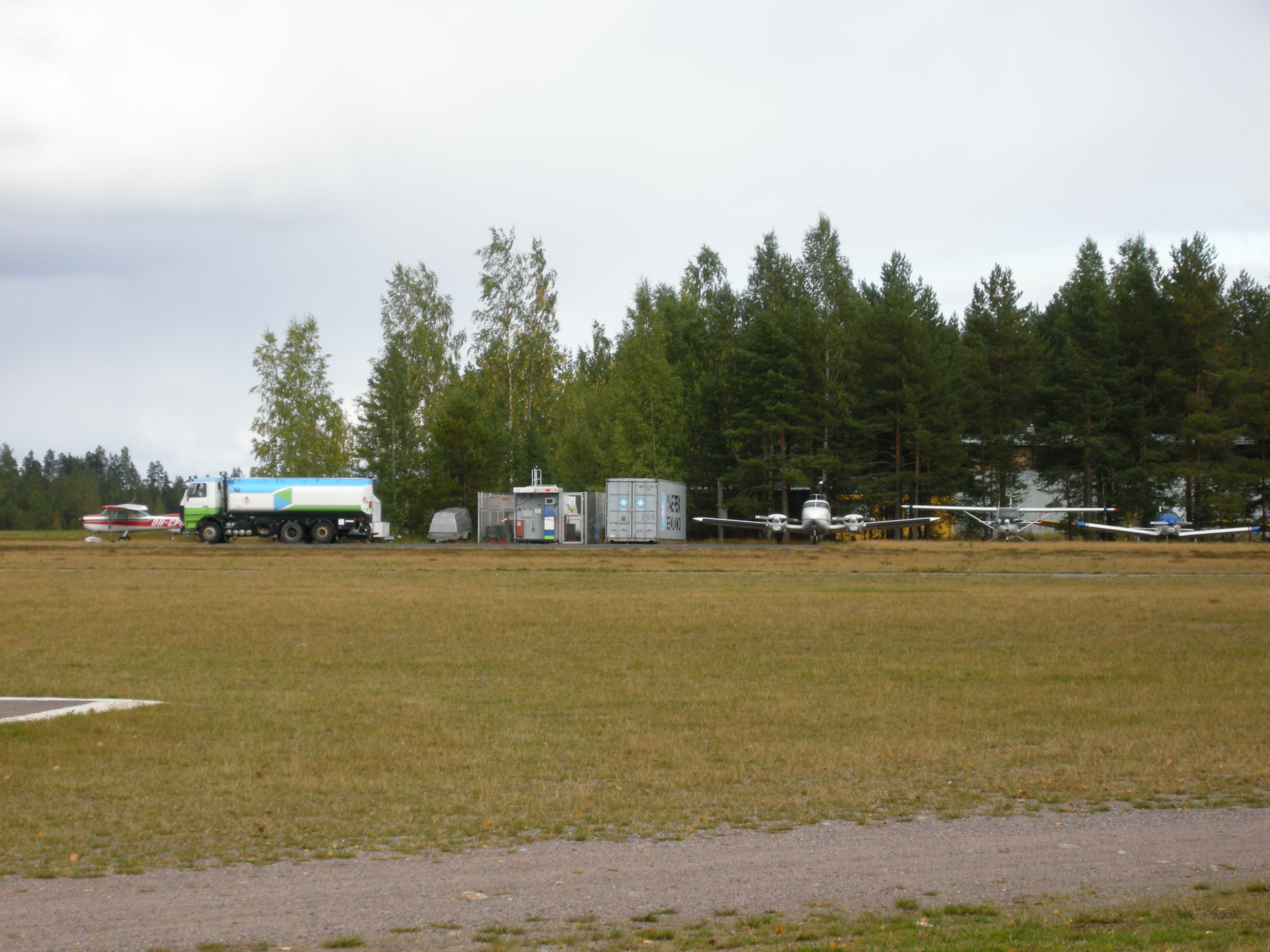 Planes at Hyvinkää Airfield (EFHV) in Hyvinkää, Finland